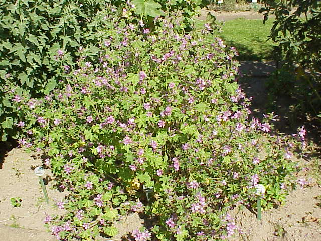 Species: Malva sylvestris Family: Malvaceae Image No. 2